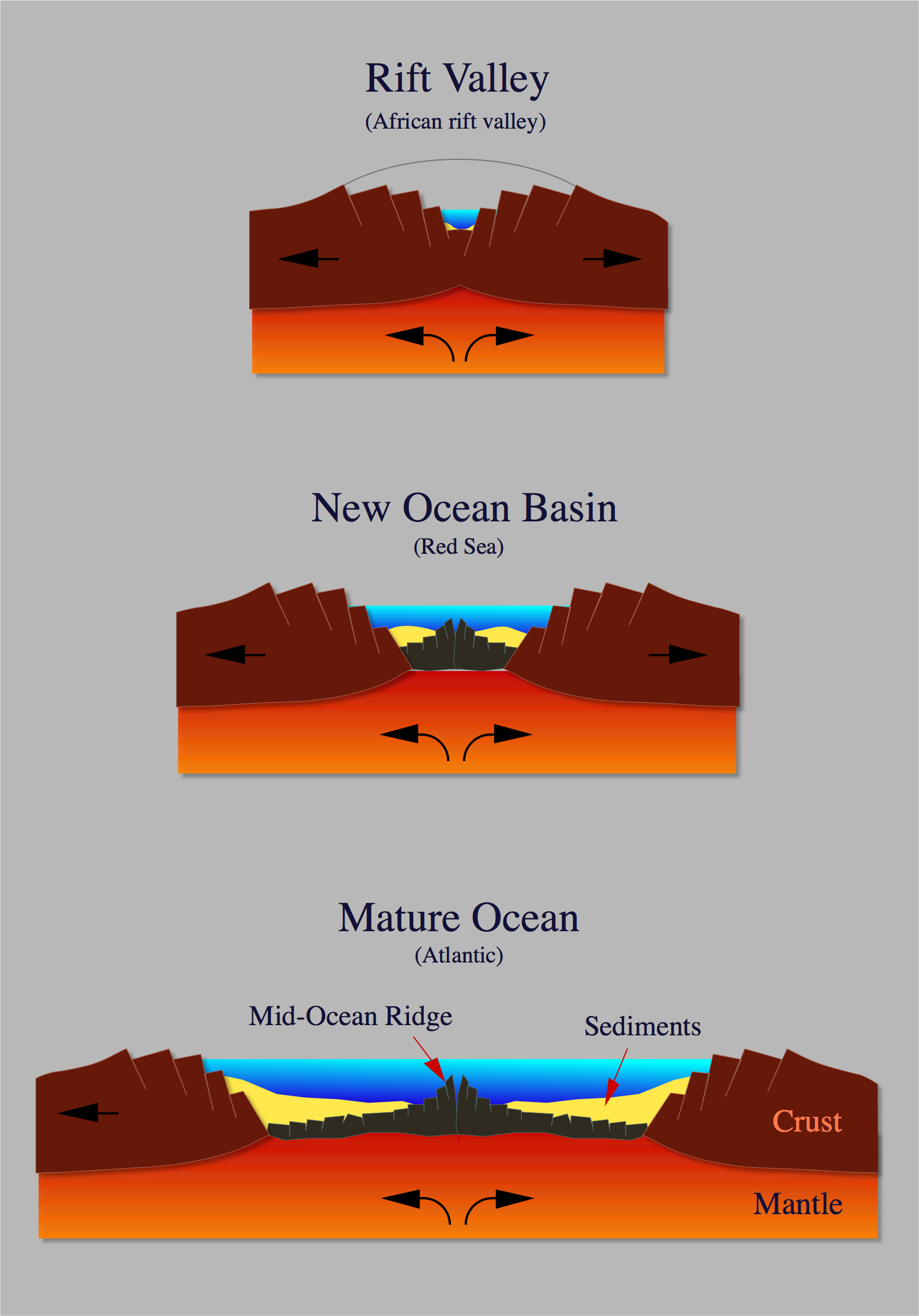 The genesis of an ocean: In plate tectonics, the formation of an ocean starts with a rifting process in the crust as a result of mantle convection. An example of this is the African Rift Valley. In the next stage, the valley has opened up until sea water enters; a good example is the Red Sea. The spreading process continues, the ocean becomes wider and forms a mature ocean like the Atlantic.